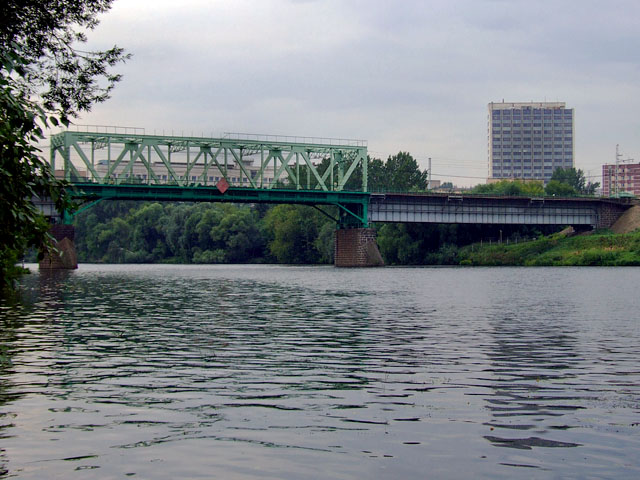 Belorusskij bridge